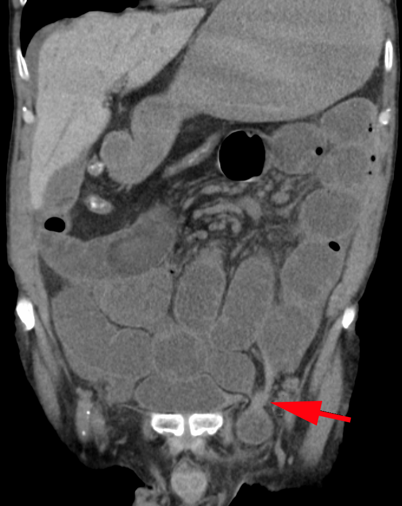 Proposed revision of file Inguinalhernia2.png